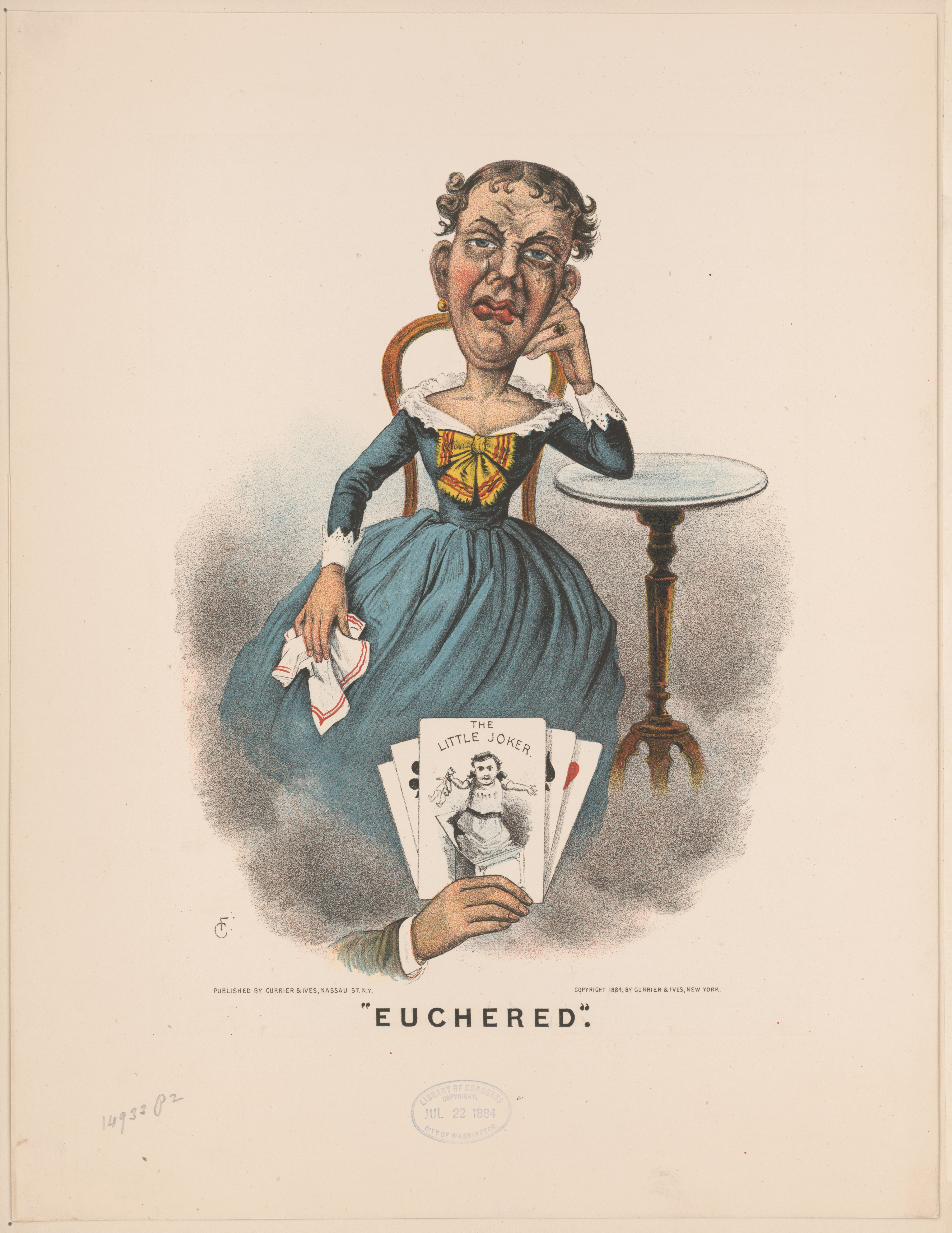 Title: "Euchered" Physical description: 1 print : lithograph. Notes: Artist: F.C. (signature on image).